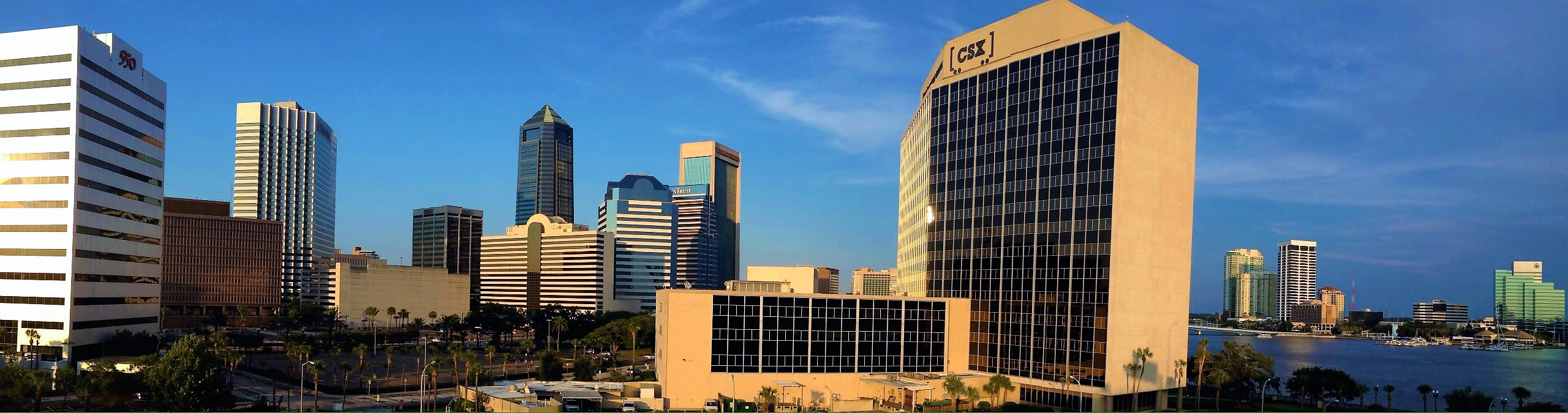 Skyline of Jacksonville, Florida, as viewed from the Acosta Bridge.